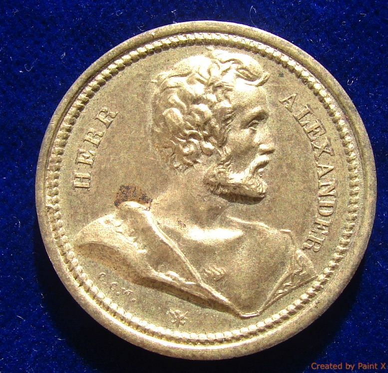 Gilt base metal medal d.= 29 mm. Heimbürger, Alexander, magician, 1819 Münster - 1909 Münster/Westfalen, Germany Farewell medallion for his departure from New York. Portrait r., curved above: "HERR ALEXANDER" / 9 lines: "PRESENTED TO HERR ALEXANDER AS A TESTIMONY OF ESTEEM FROM HIS FRIENDS IN NEW YORK 1847." ANA 1949.65.406; Rulau NY42. Medallist: C.C.W. (Charles Cushing Wright), Sculptor, 1796 Damariscotta, Maine - 1854 New York Condition: EXTREMELY FINE.